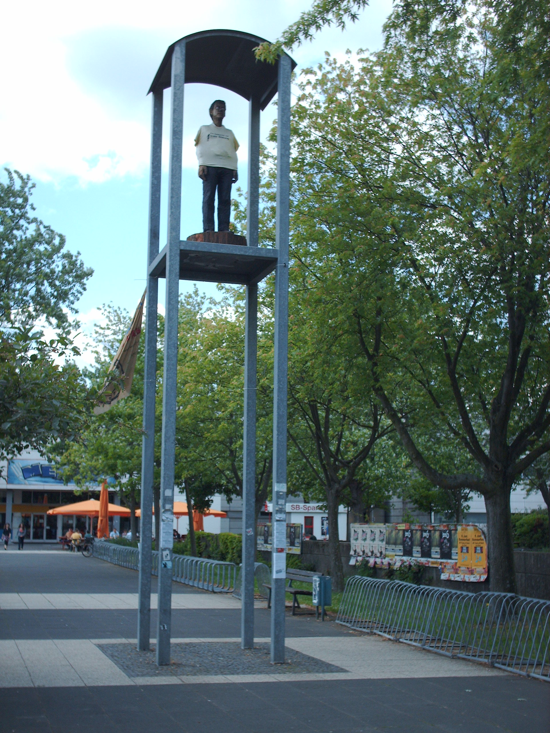 Mann im Turm by Stephan Balkenhol, part of Gießener Kunstweg, Gießen, Germany check usage